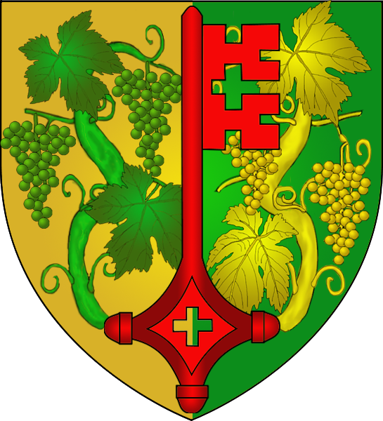 Coat of arms of the municipality of Wormeldange, Luxembourg